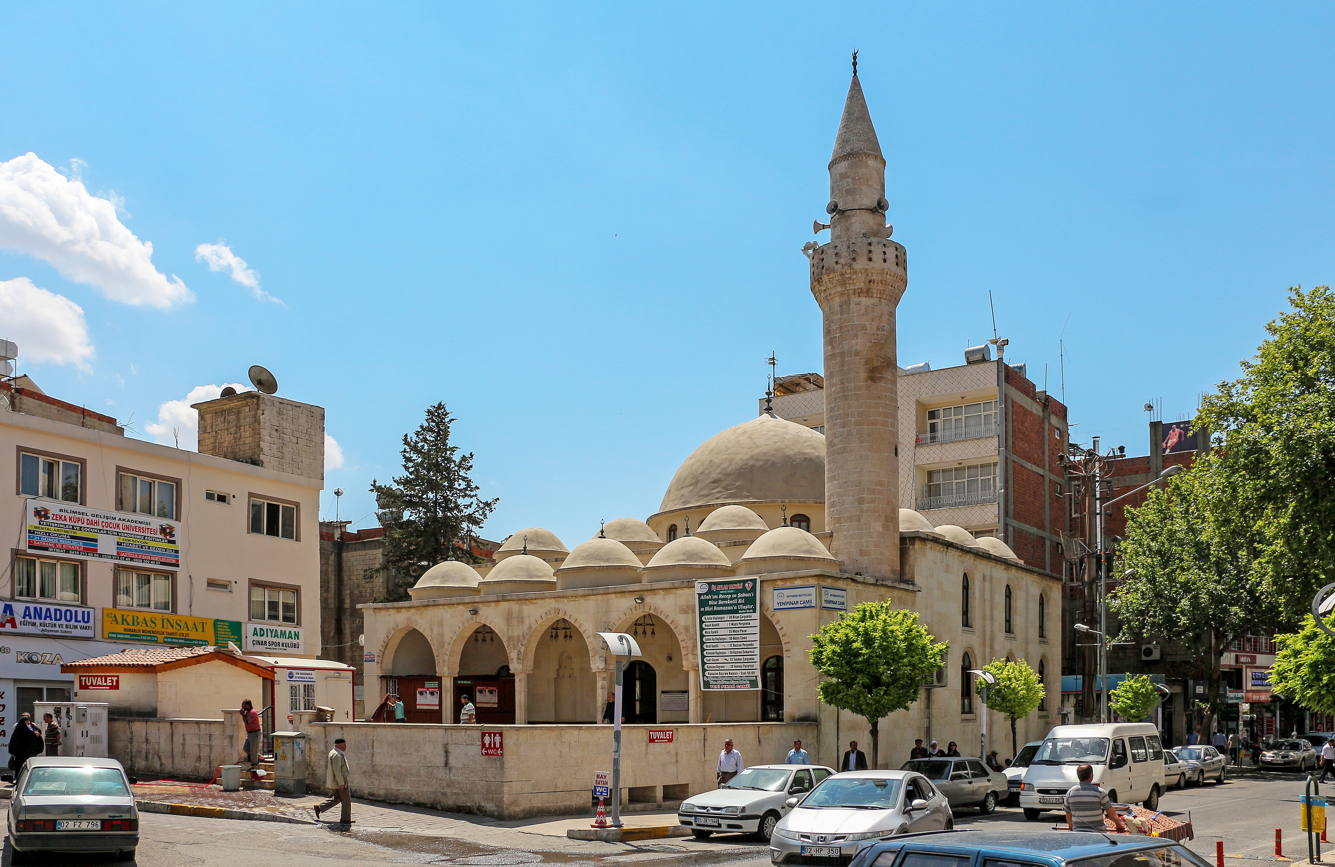 Yenipinar Mosque, Adiyaman, Turkey